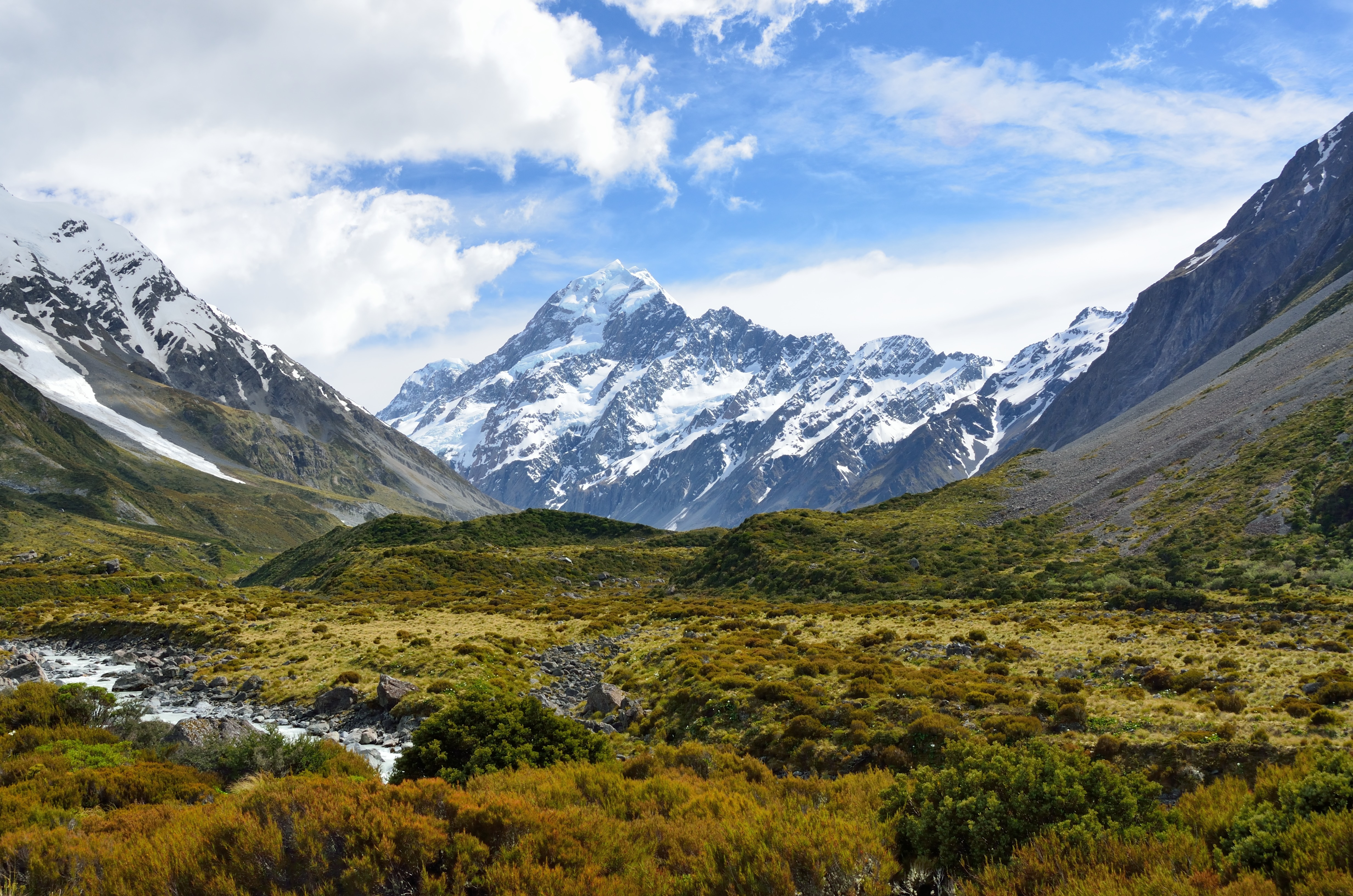 Mount Cook, New Zealand, viewed from the Hooker Valley Track